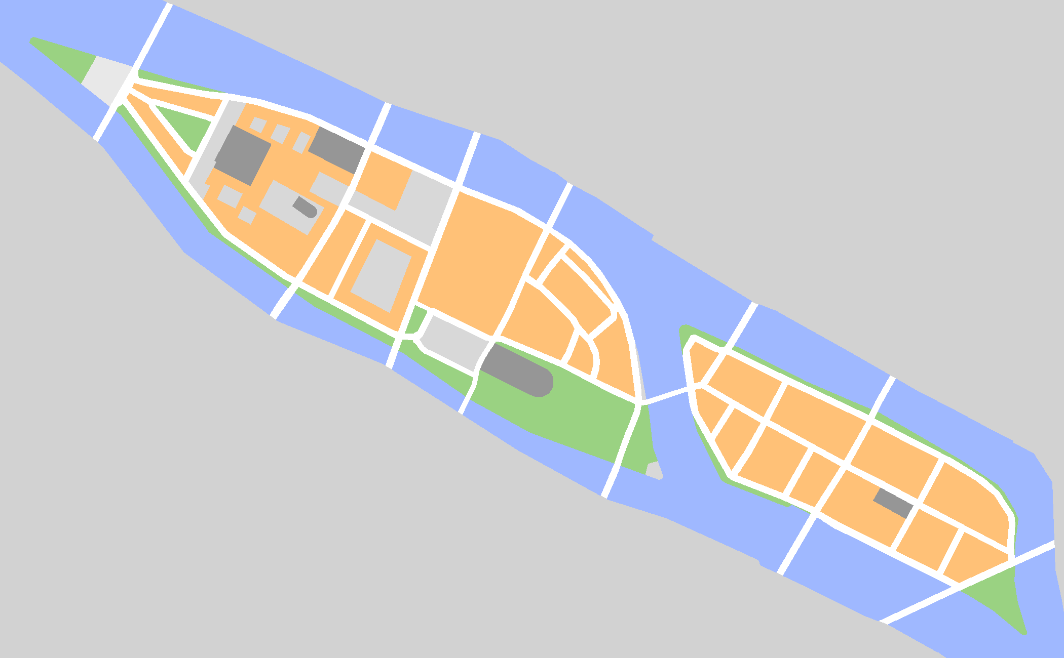 Île de la Cité and Île Saint-Louis